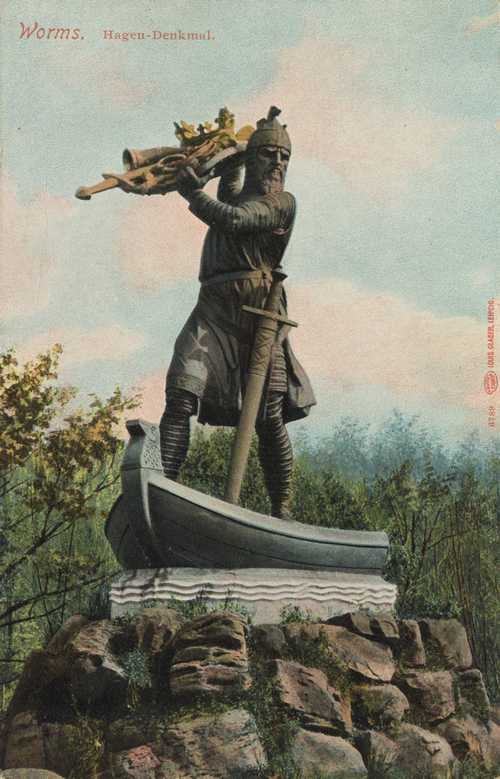 Hagen memorial in Worms at the river Rhine, Germany. Coloured photography post card of 1905.